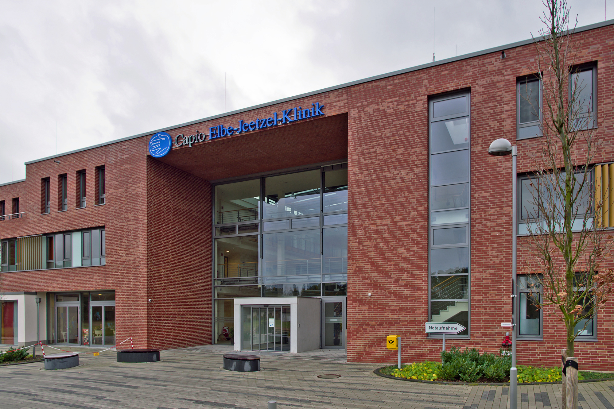 New building (inauguration 2012) of the hospital "Capio Elbe-Jeetzel Klinik" in Dannenberg (Elbe); main entrance.